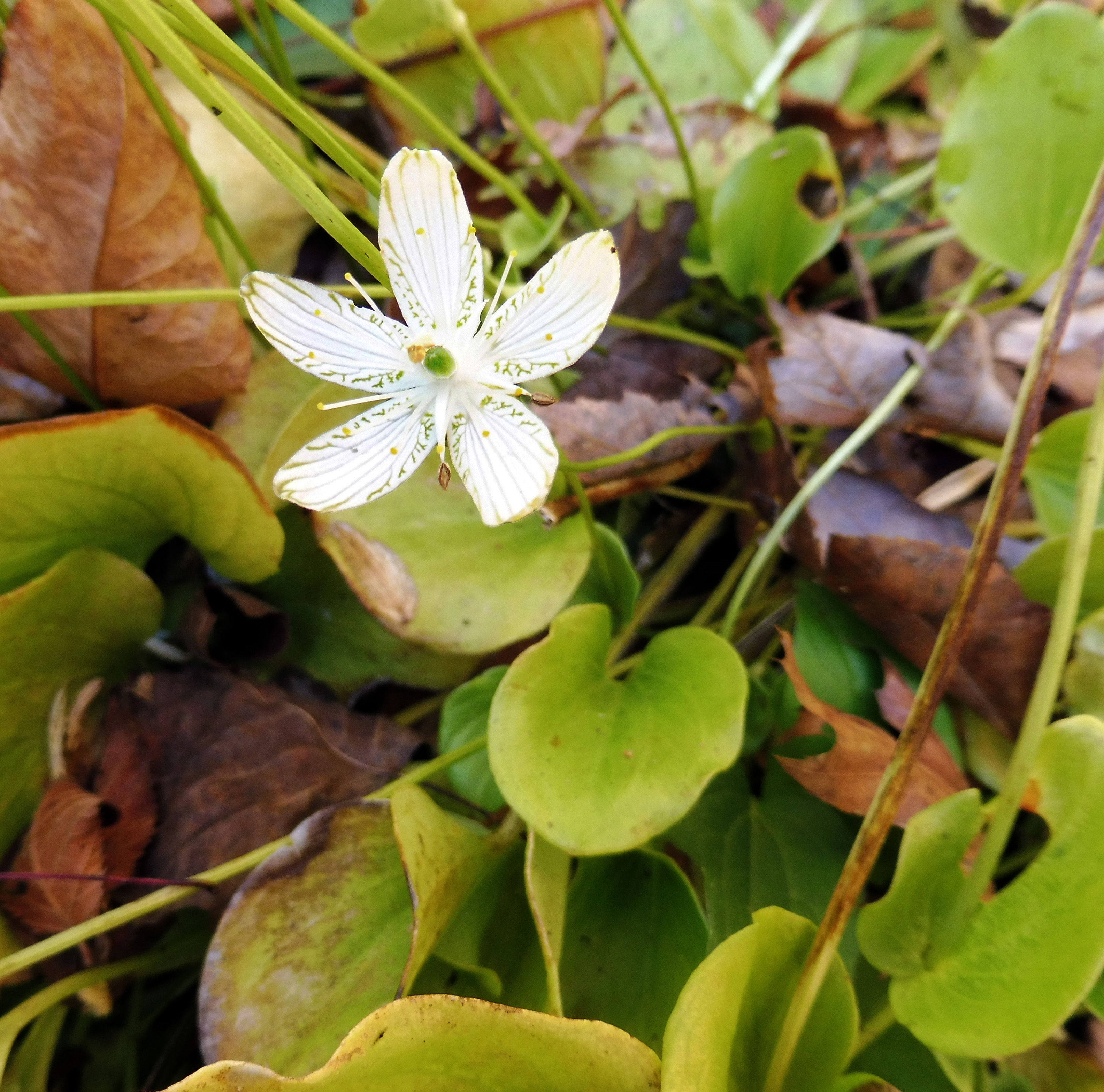 Parnassia grandifolia, in a massive gravelly seep on a slope near Langford Branch, Lewis County, Tennessee.